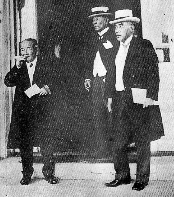 Members of the Capital Restoration Board: from left, Viscount Eiichi Shibusawa, Count Miyoji Itō, Baron Takaaki Kato.